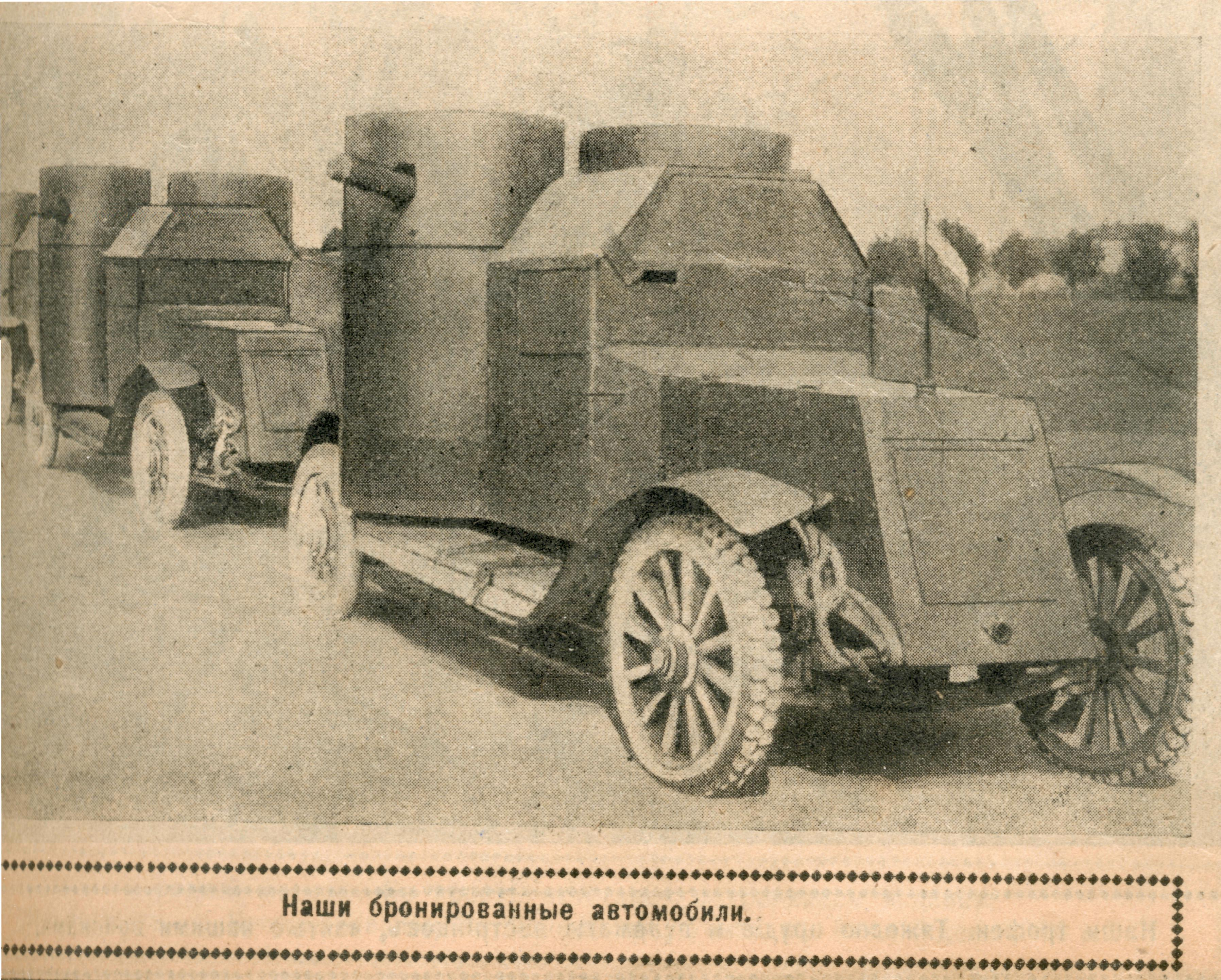 Austin armoured cars (1st series) in Russian Army, WWI.